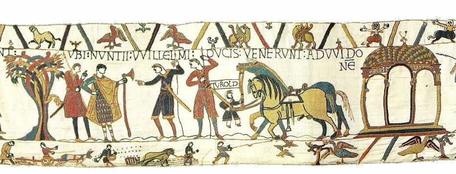 Bayeux Tapestry Scene 10a